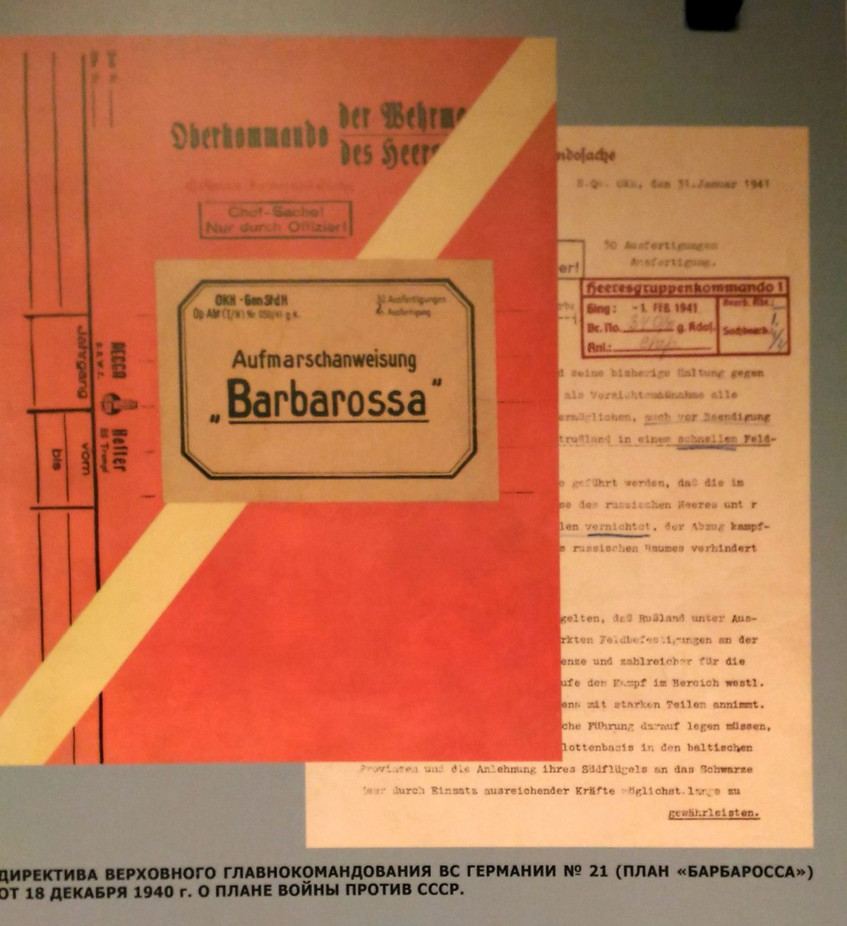 Original of the german 'Aufmarschanweisung "Barbarossa"' (troop deployment instruction Barbarossa) in the russian Central Armed Forces Museum in Moscow, time stamped February 1, 1941.